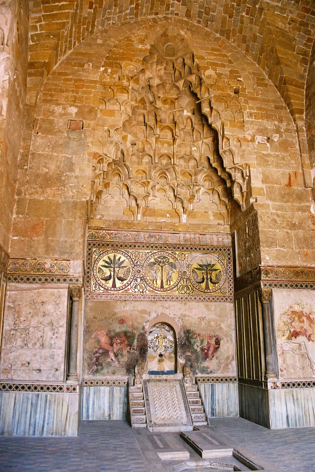 Zisa, Palermo, Niche of the main hall with fountain and muqarna